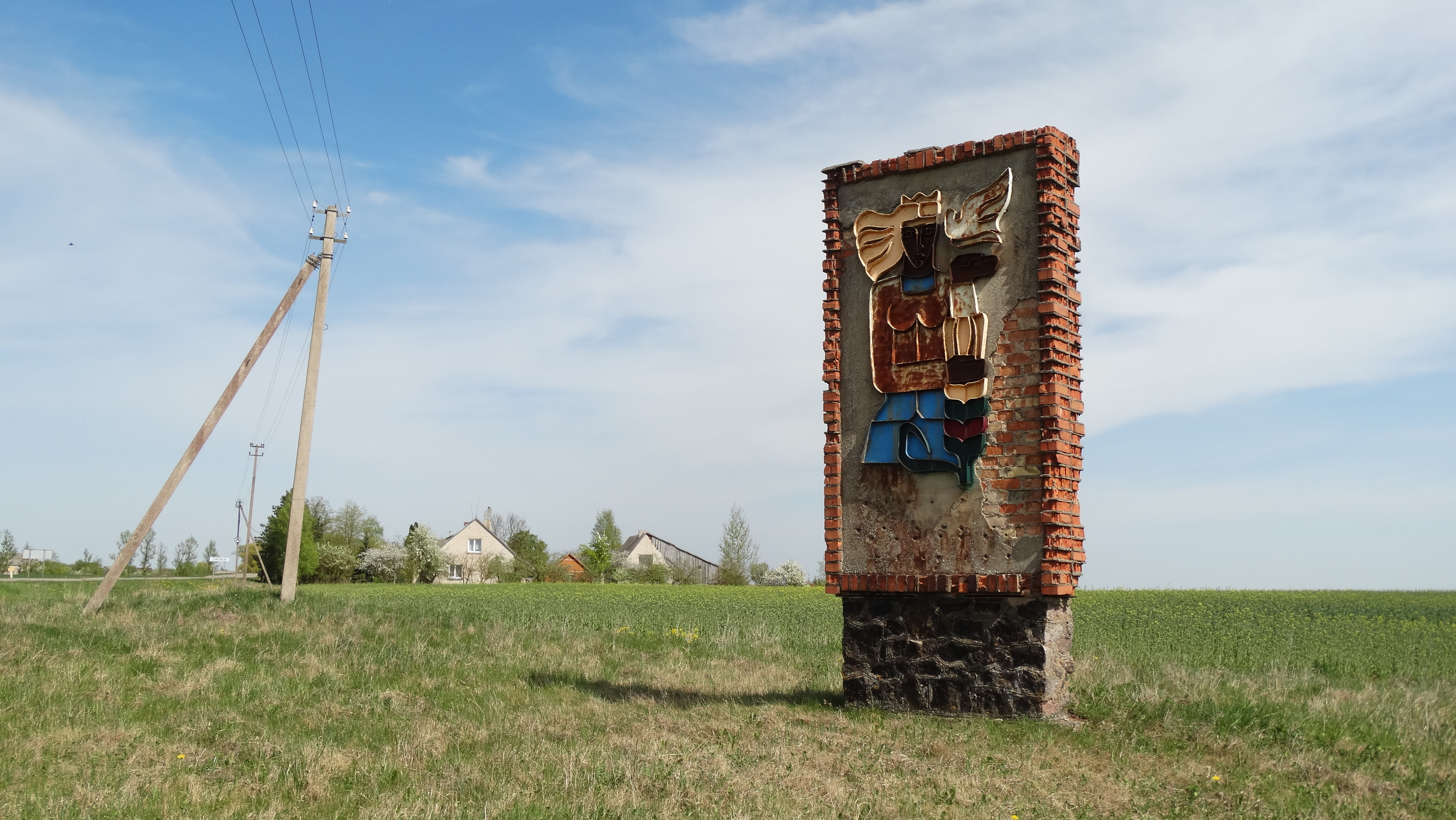 Šikšniai, Pakruojis district, Lithuania